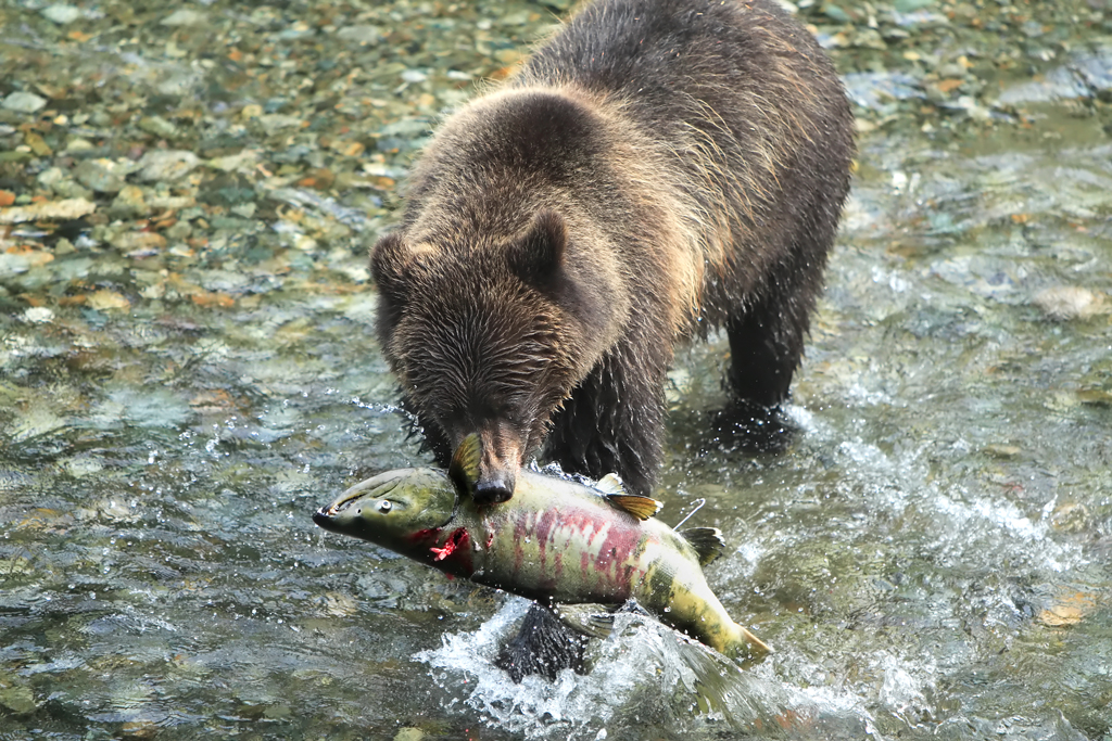 Alaskan Coastal Brown bear (Ursus arctos) with a live Salmon in his mouth at a creek near Hyder, Alaska.